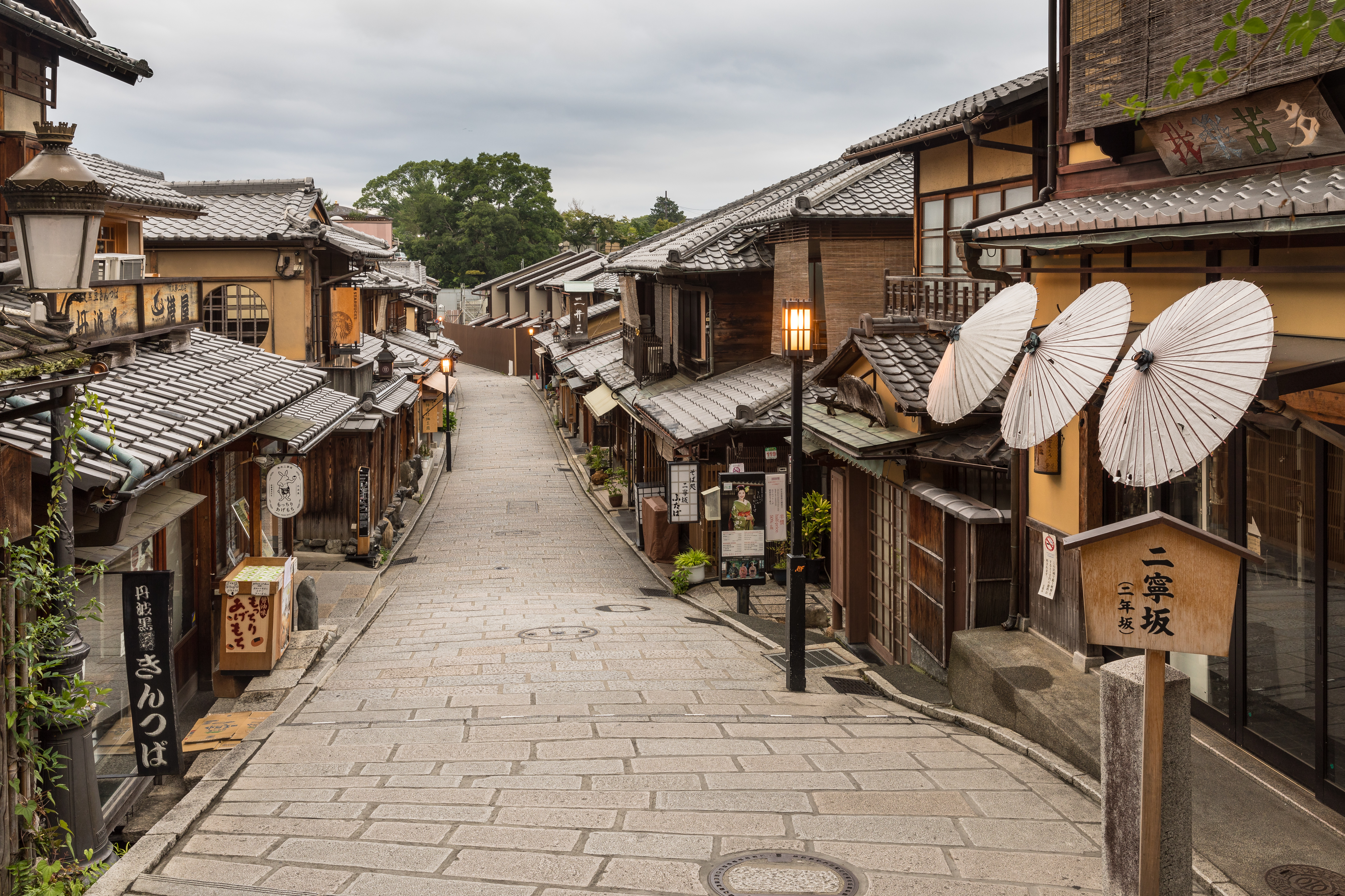 Ninenzaka Street, 3 Chome, Higashiyama-ku, Kyoto, Japan. Pedestrian road with pavements and paper umbrellas, at 5:40 am.